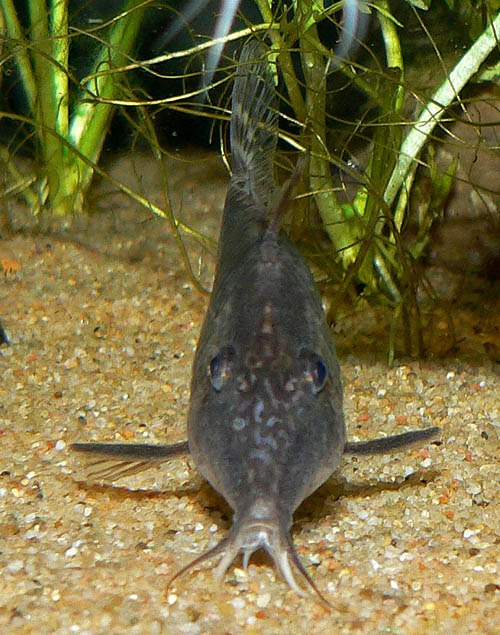 Photo of Corydoras semiaquilus at the Vancouver Aquarium